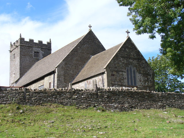 Eglwysilan - Church of St Ilan. This old church sits on a remote hilltop between churchyard and pub.